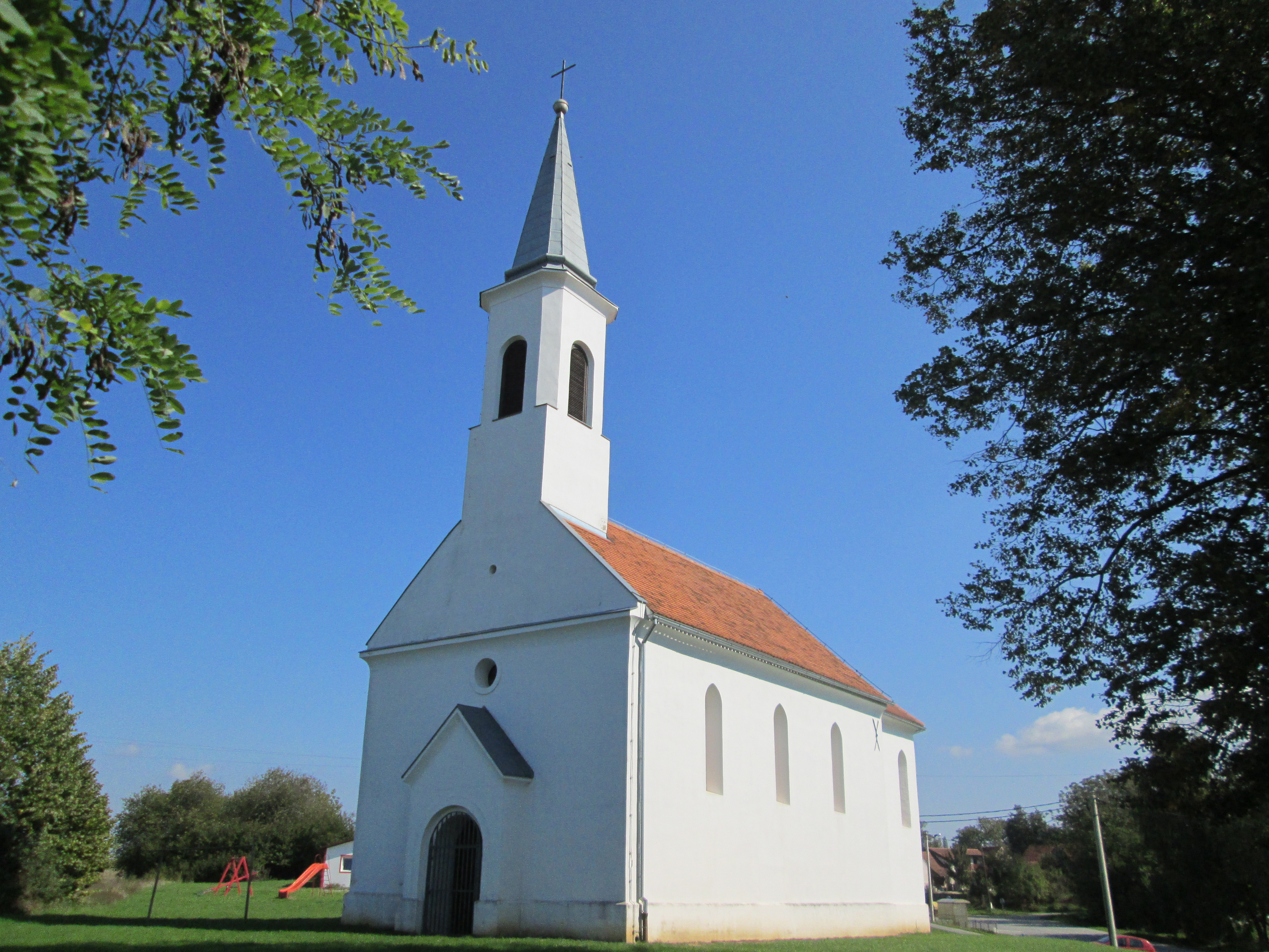 St. Thomas Church in Tomas, Bjelovar, Croatia. This is a a photo of a cultural heritage in Croatia with ID:Z-2113